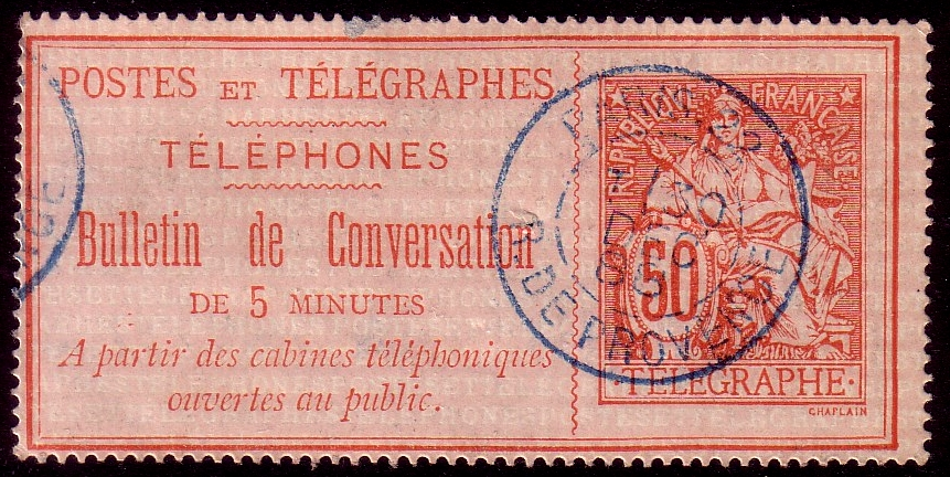 French telephone stamp used 1888.